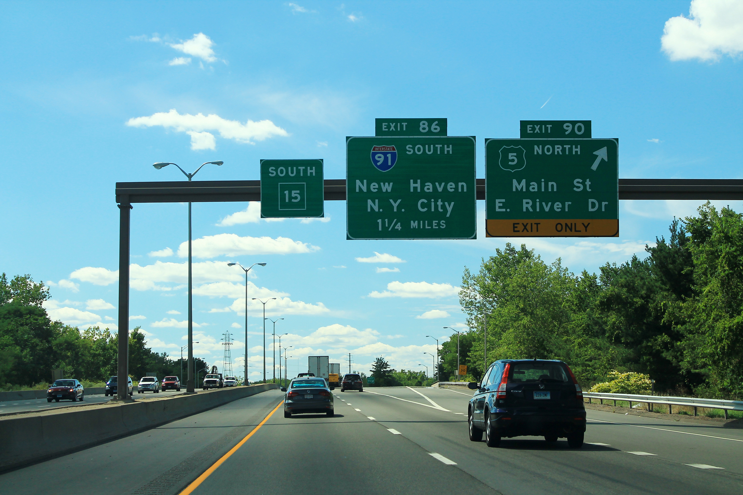 CT15sRoad-Exit90-US5n-Exit86-Int91-ButtonCopy